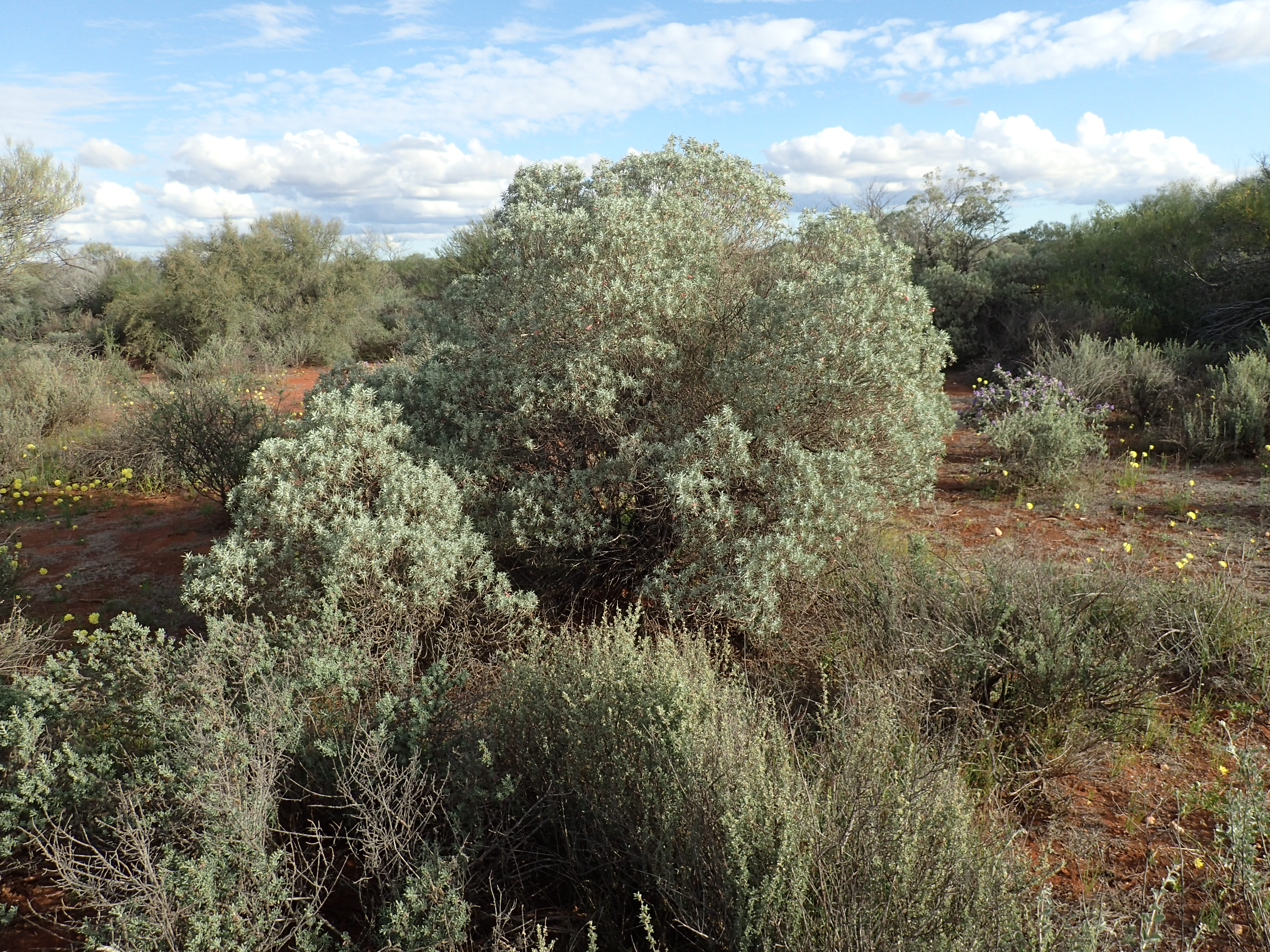 Eremophila pterocarpa pterocarpa growing 35km west of the overlander Roadhouse